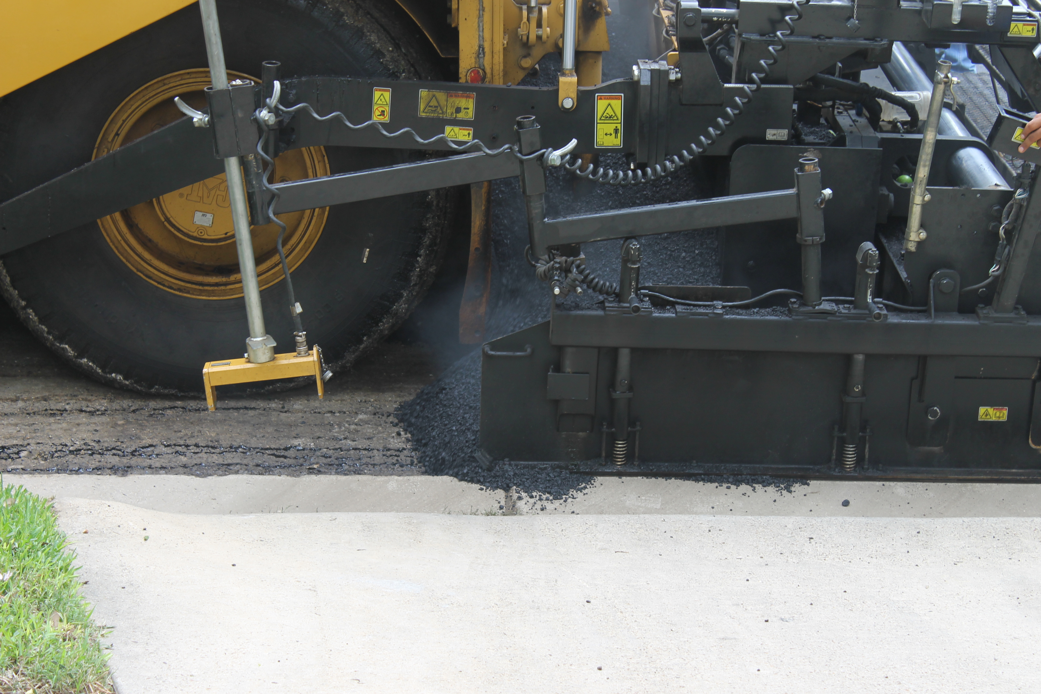 Blacktop machine in Laredo, TX